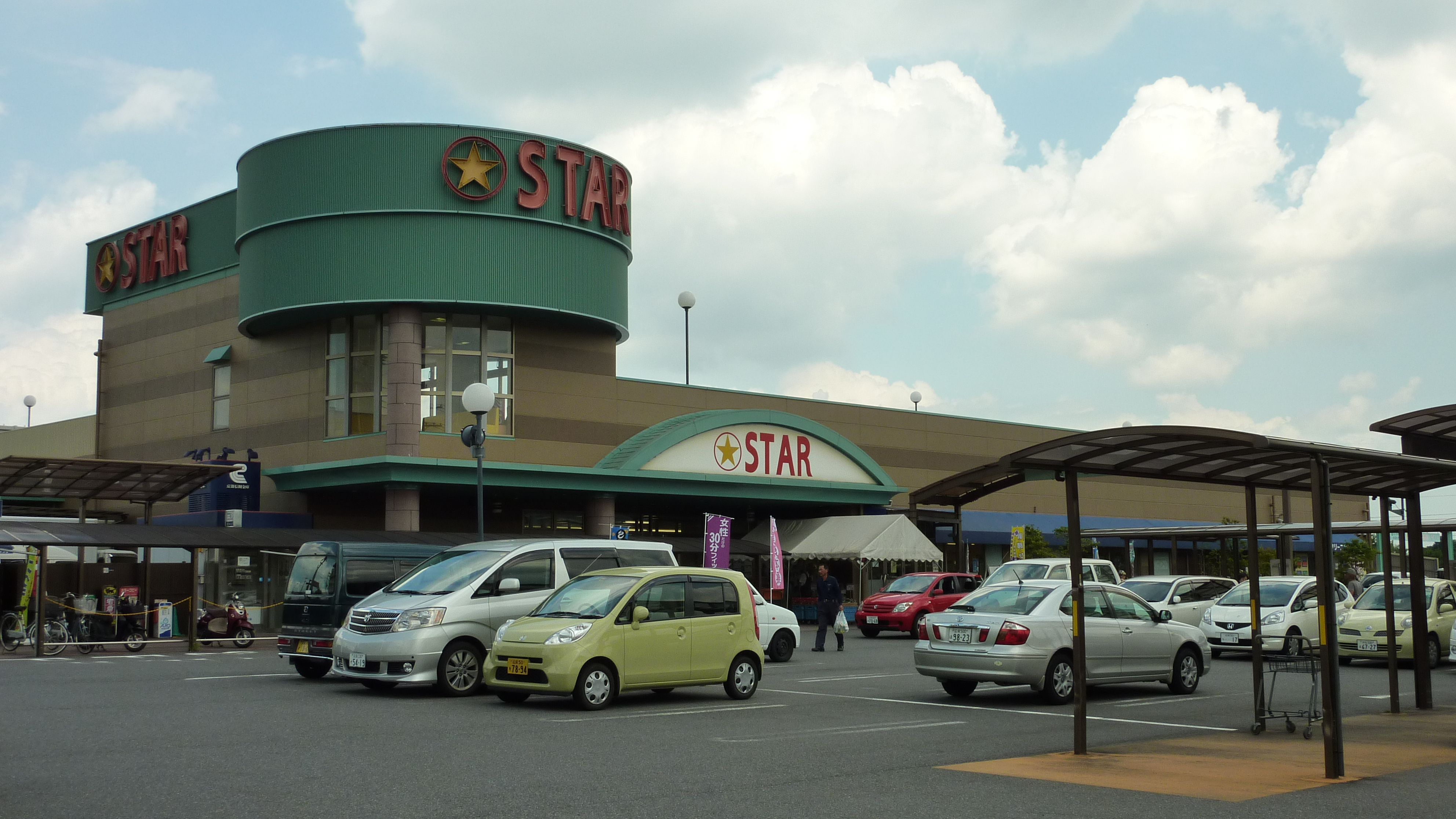 Supermarket STAR Kusatsu Green-Hill branch, in Kusatsu, Shiga, Japan.